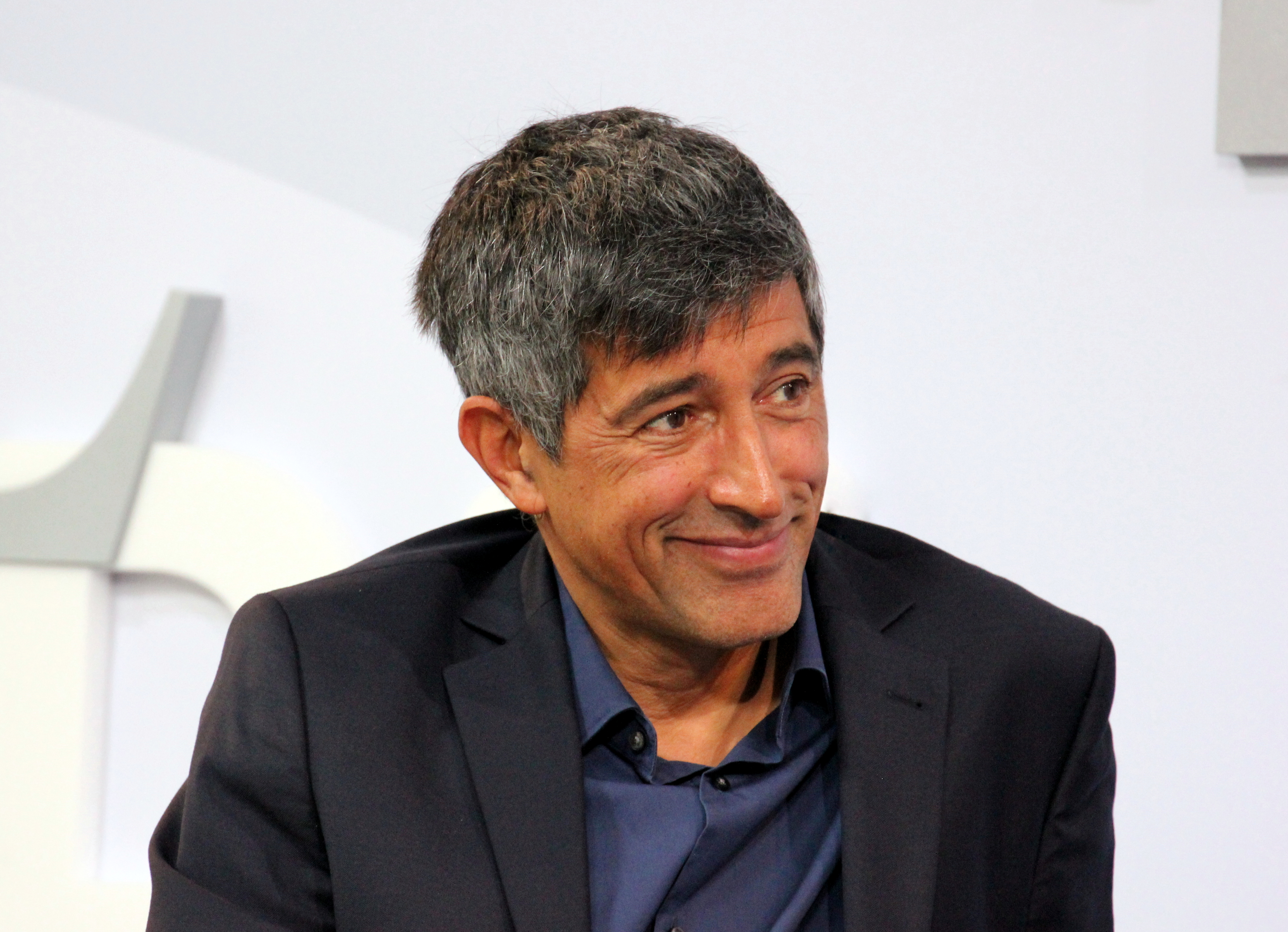 Ranga Yogeshwar, Frankfurt Book Fair 2017